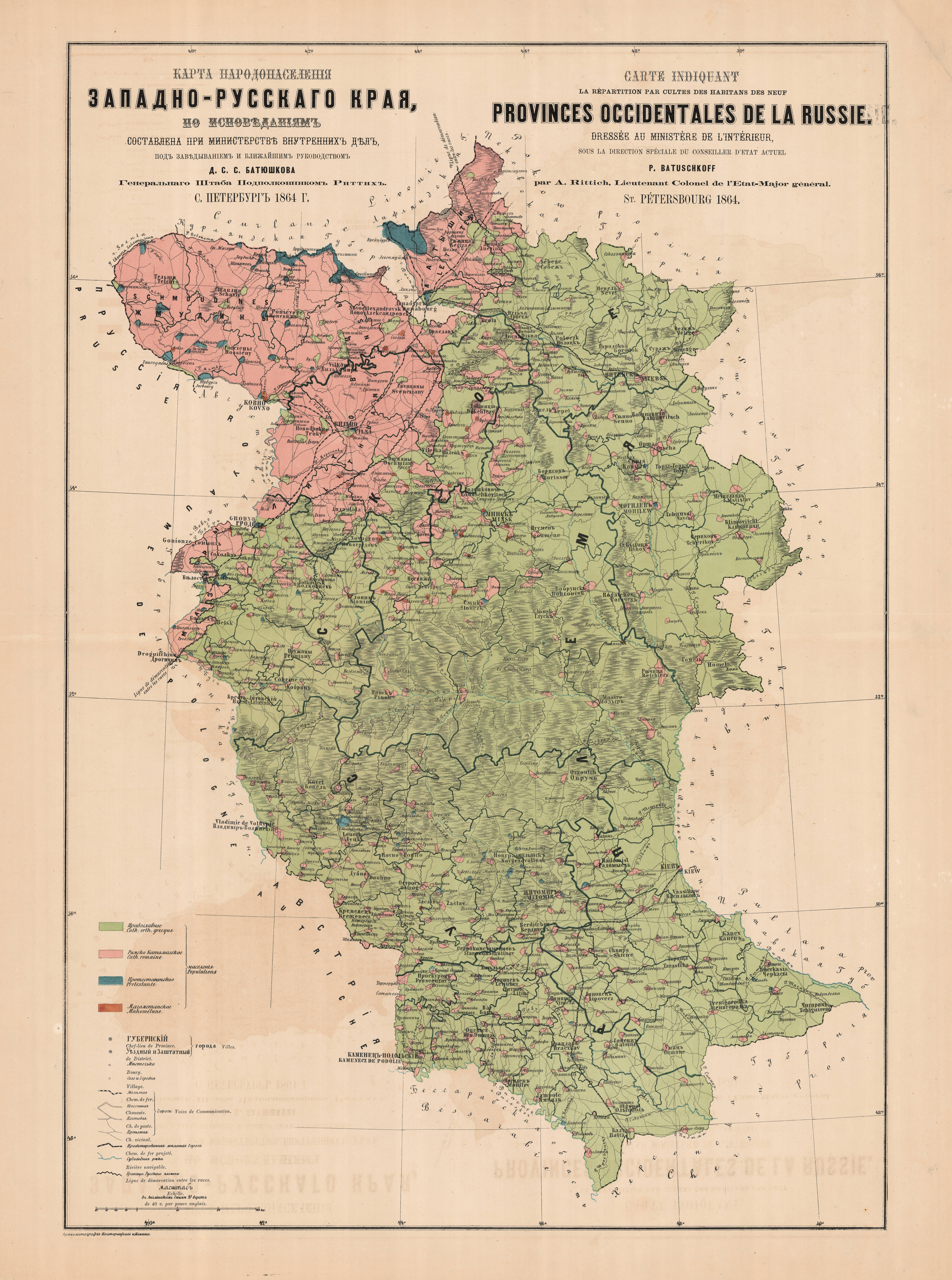 ethnical map of population of the West Russian region of confessions, 1862-1864